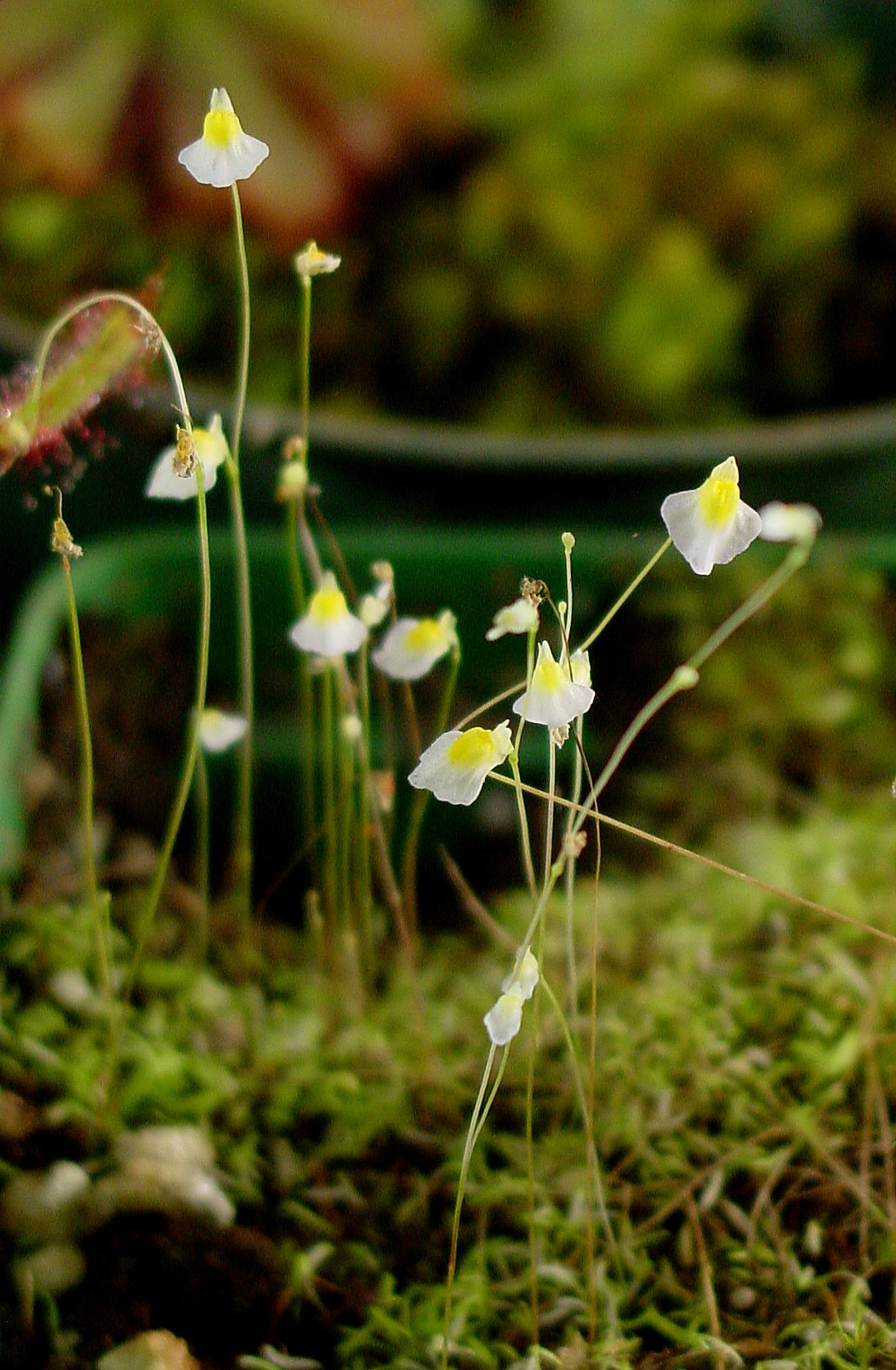 Description:Utricularia bisquamata Photo taken by: Noah Elhardt